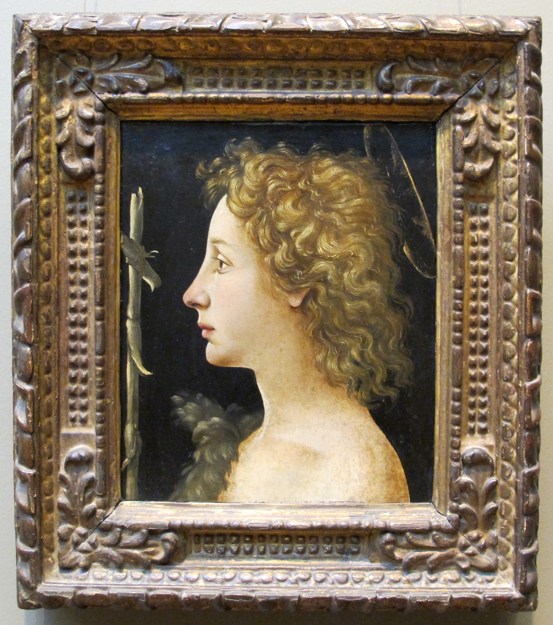 Paintings of the Italian Renaissance in the Metropolitan Museum of Art